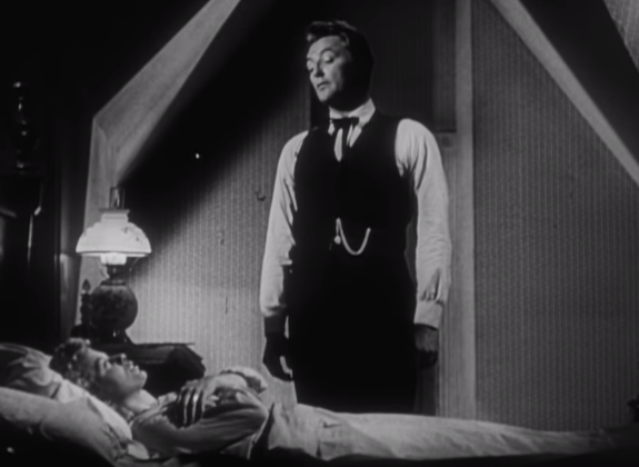 Screenshot from The Night of the Hunter trailer